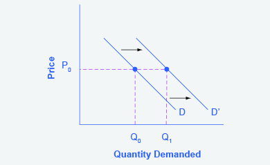 With an increase in income, consumers will purchase larger quantities, pushing demand to the right, and causing the demand curve to shift right.